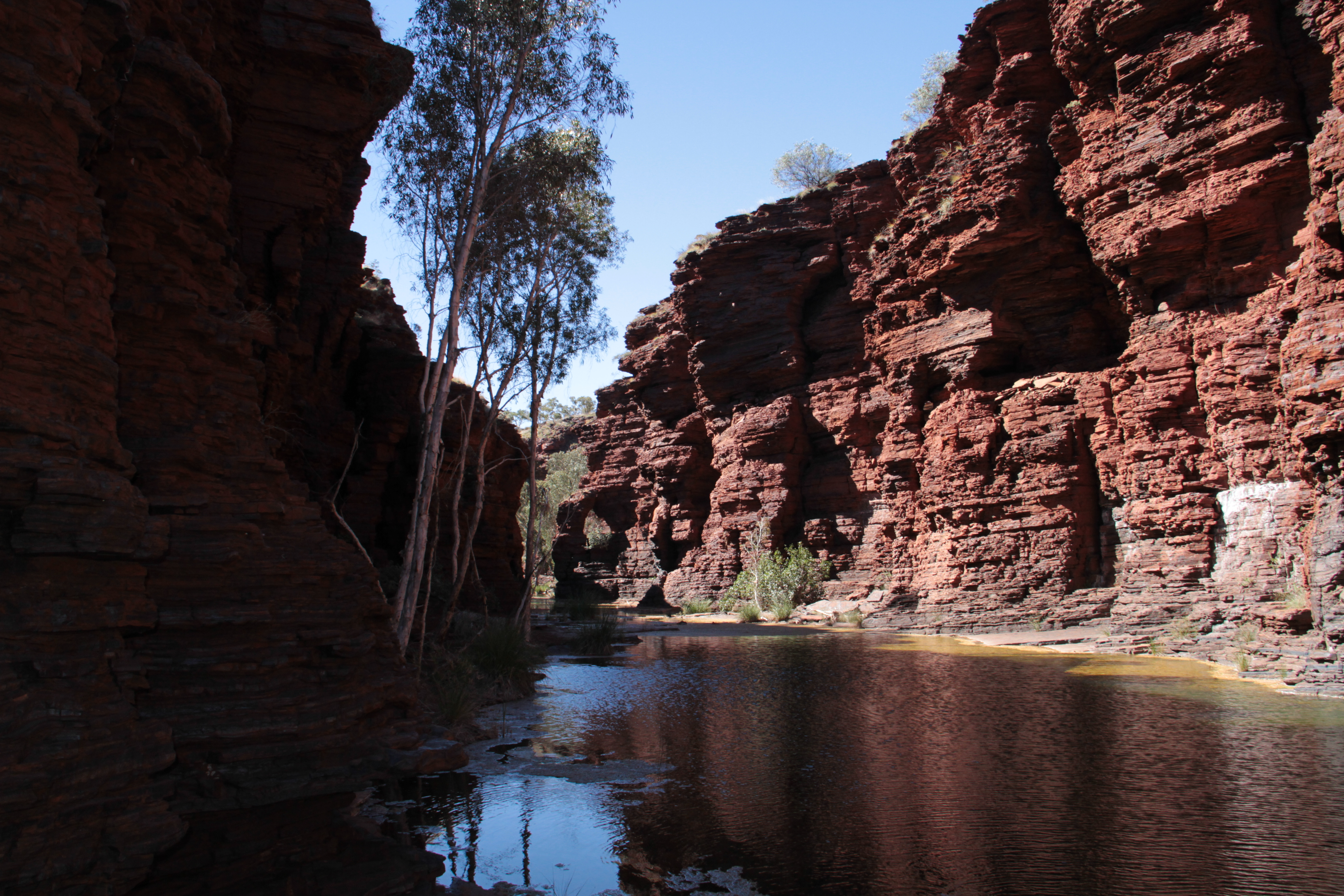 Kalmina gorge has spectacular red cliffs of red banded iron formations , reflected in the waters of the gorge.